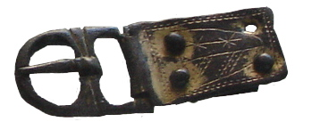 Belt buckle and chape, late twelfth century or thirteenth century, gilt bronze decorated with the coat of arms of Lastours. Discovered Château Lastours in Aude, France